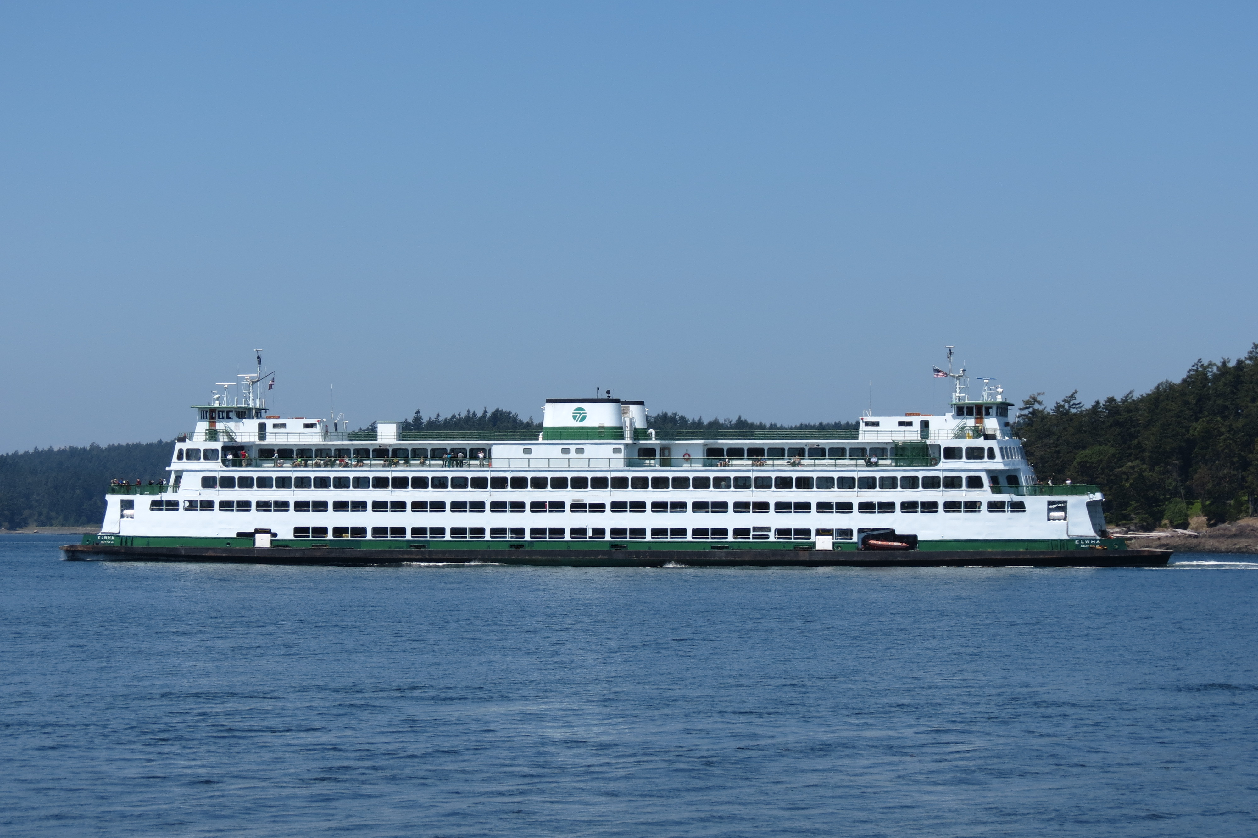 The Washington State ferry Elwha passes Flat Point on Lopez Island.